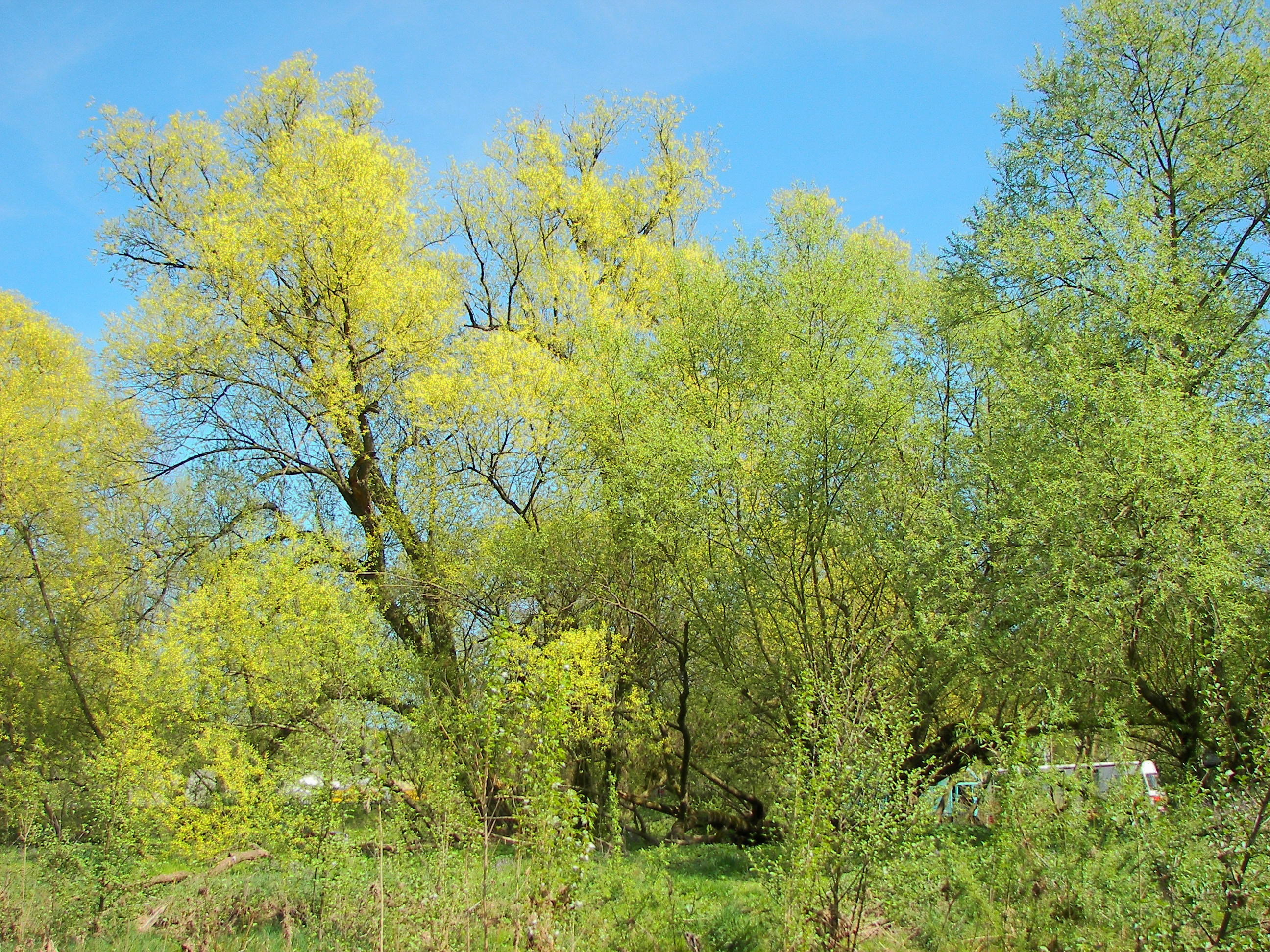 White Willow (Salix alba), Trees with male (left) and female (right) catkins, Location: Marburg, Hesse, Germany